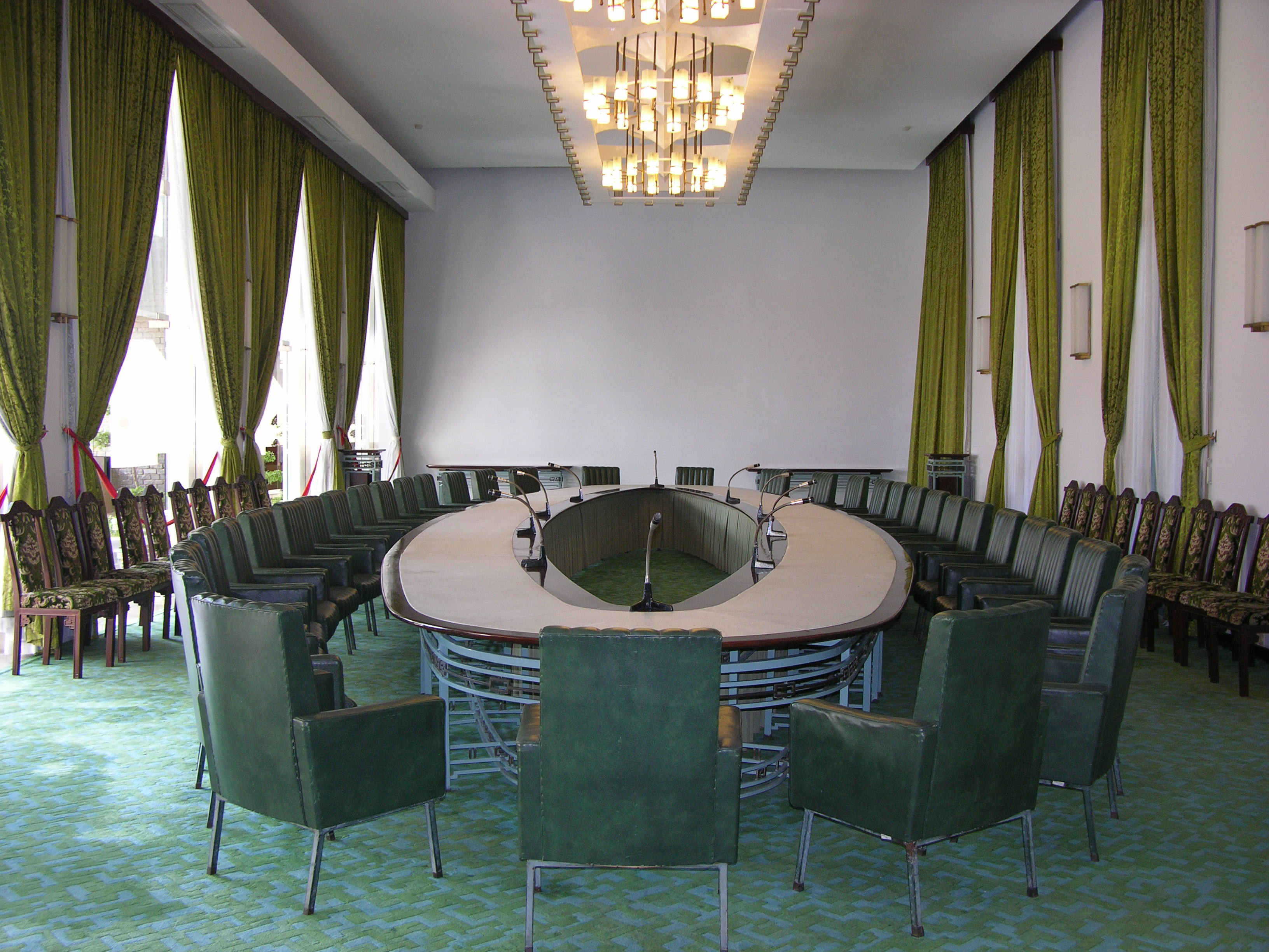 Cabinet Meeting Room of Reunification Palace, Ho Chi Minh city, Viet Nam